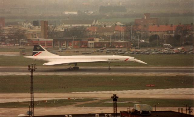 Heathrow Airport Concorde on its roll-out after landing on runway 09L. This picture is looking north in the square from the central terminal area